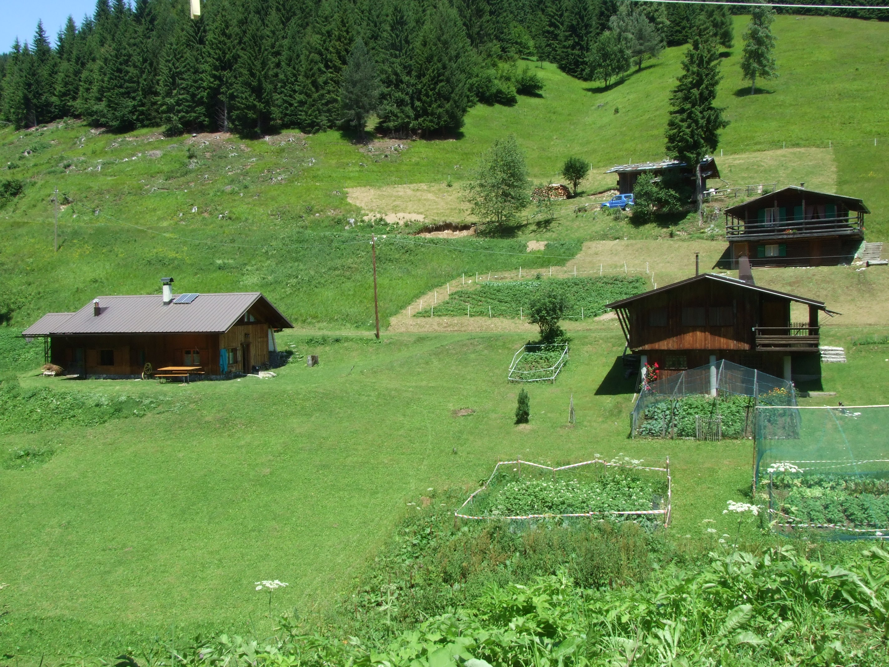 Some houses on the mount Vederna, in comune of Imèr, in Italy.